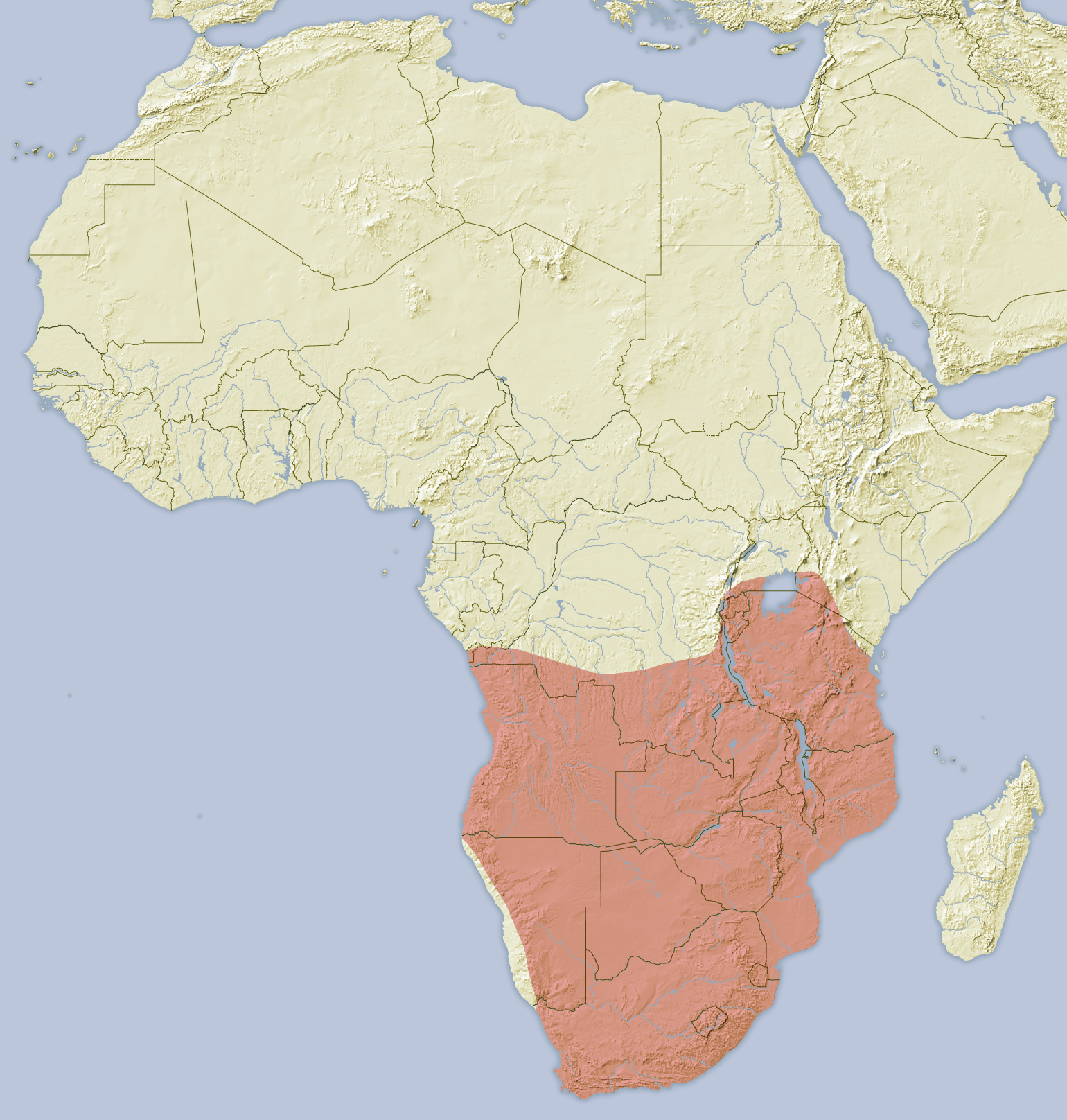 Distribution map of the Cape porcupine